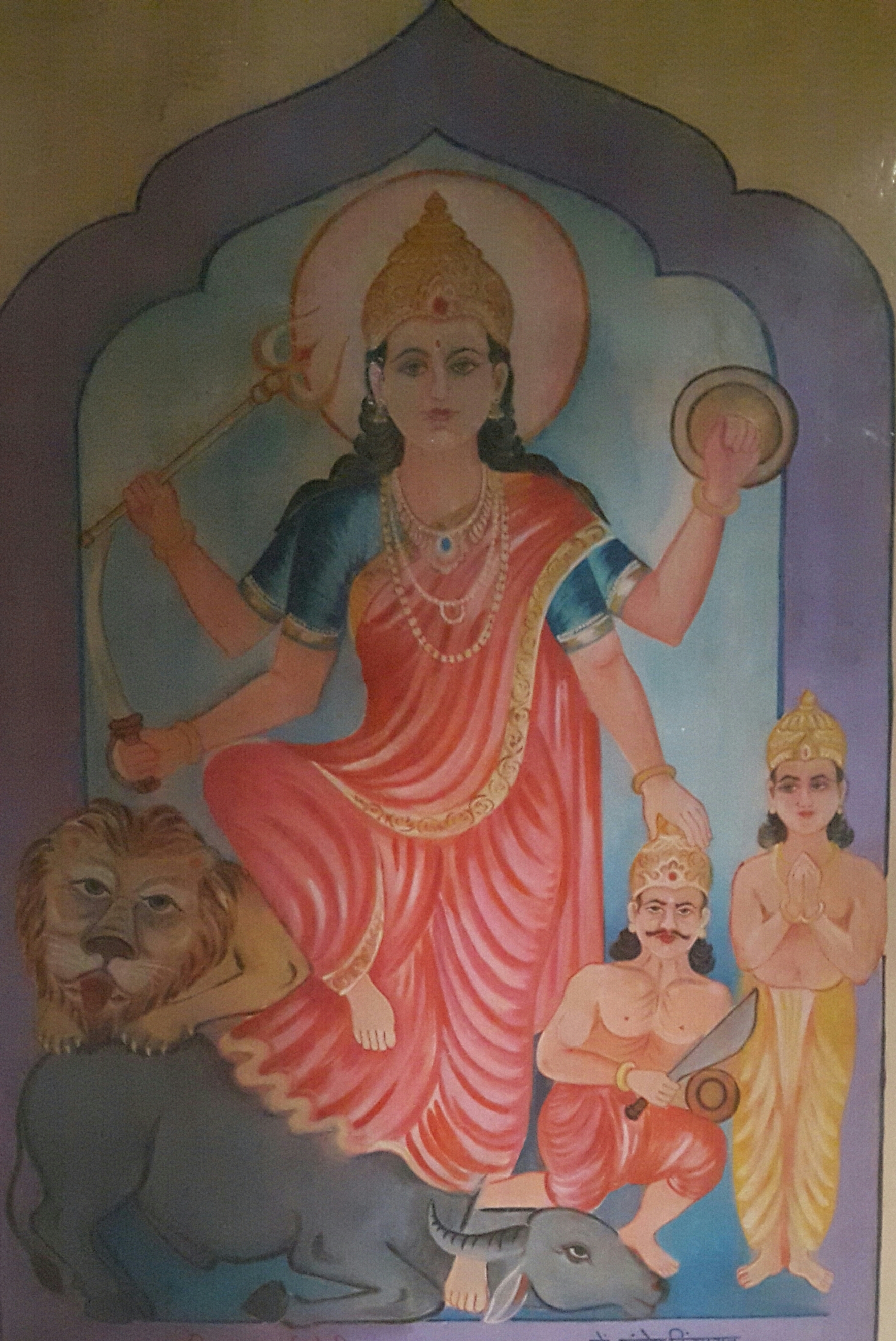 Aryadurga devi is gram devi of devihasol village